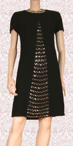 black cocktail dress